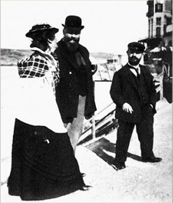 Misia Natanson (n. Sert), Thadée Natanson and H.T. Lautrec (c.1895-6). Photographer Maxime Dethomas. This image was later used by Dethomas to create two drawings of Lautrec, which are now held at the Lautrec museum at Albi.